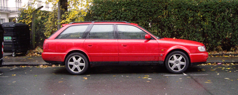 Audi S6 Estate in Bayswater